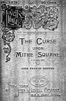 Title page of The Curse Upon Mitre Square by John Francis Brewer